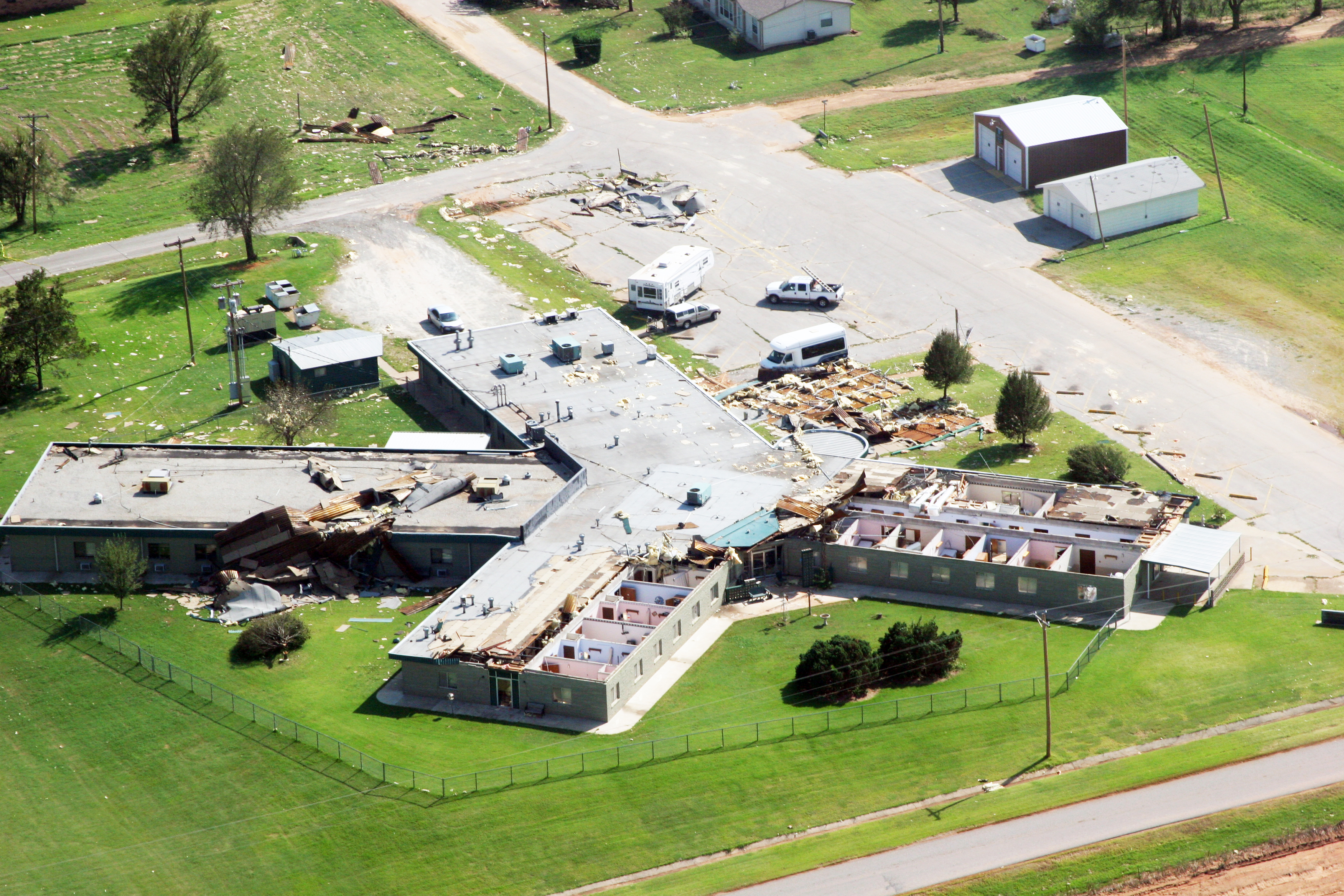 Caddo County, OK, August 20, 2007 -- This nursing home was damaged by high winds from Tropical Storm Erin (2007). Fortunately there were no fatalities. FEMA and the state conducted joint aerial preliminary damage assessments immediately following the severe weather to determine the extent of the damages and the impact on the state. Photo by: Patricia Brach/FEMA photo